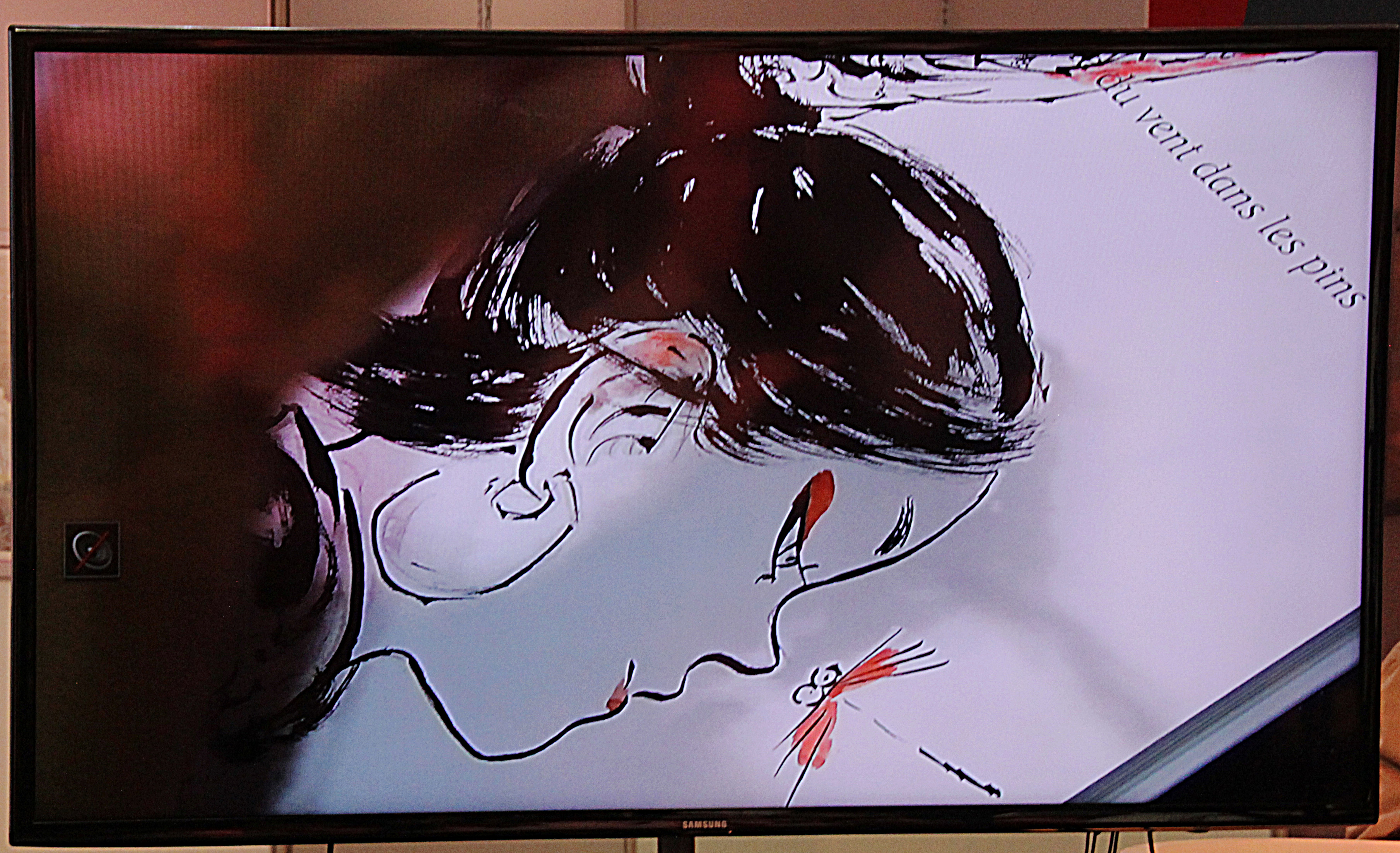 Zao Dao drawing during Brussels Comics Festival.